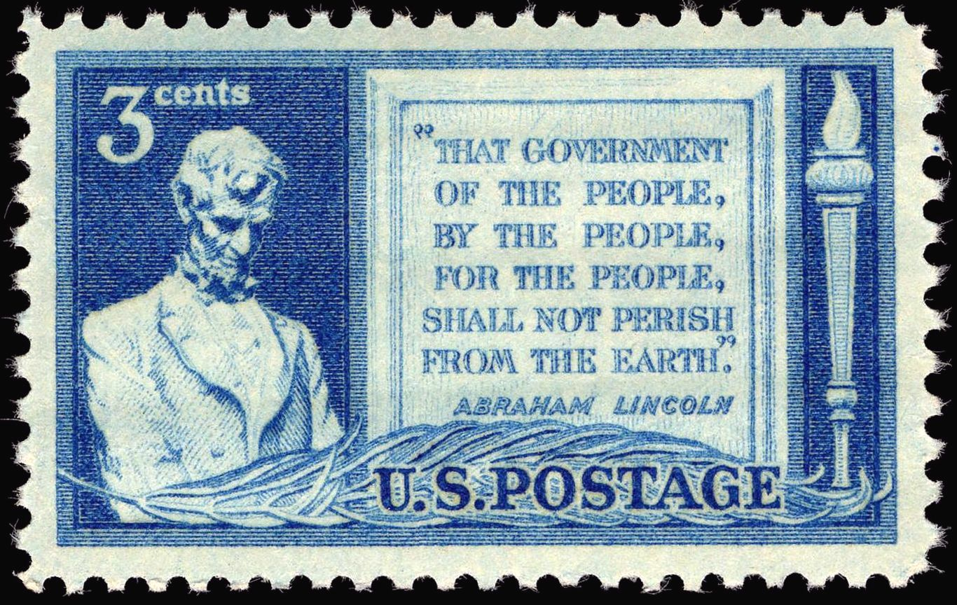 US Postage Stamp, 3-cent Gettysburg Address Issue, Lincoln, Of the People, By the People, For the People. Issued eighty-five years to the day after President Abraham Lincoln delivered his most famous speech.